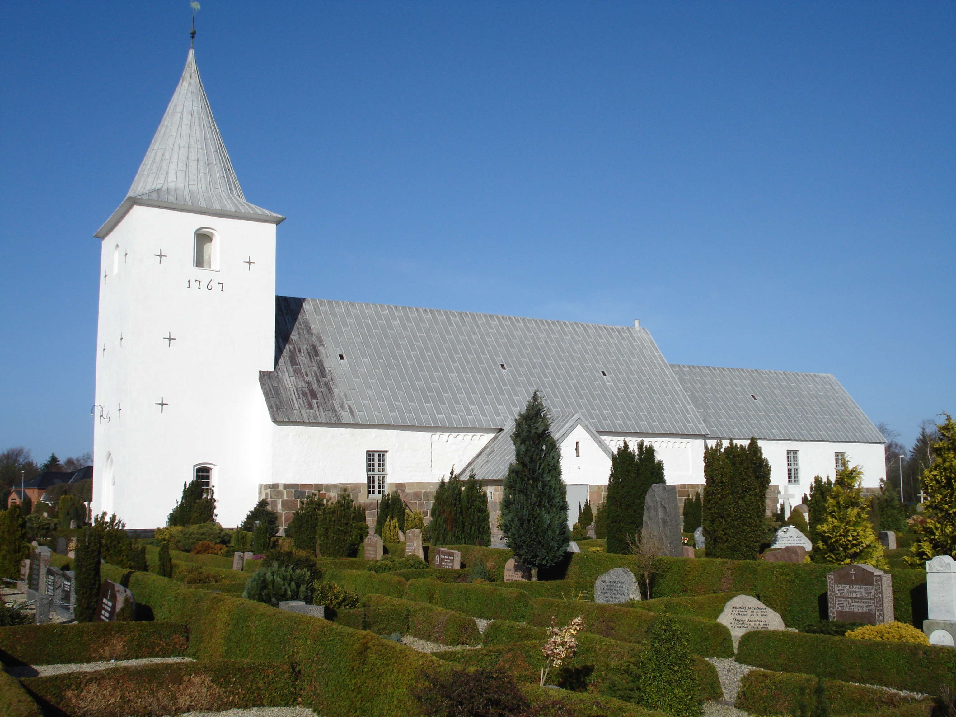 Ål Kirke (Ål Church) in the southern Jutland, Denmark